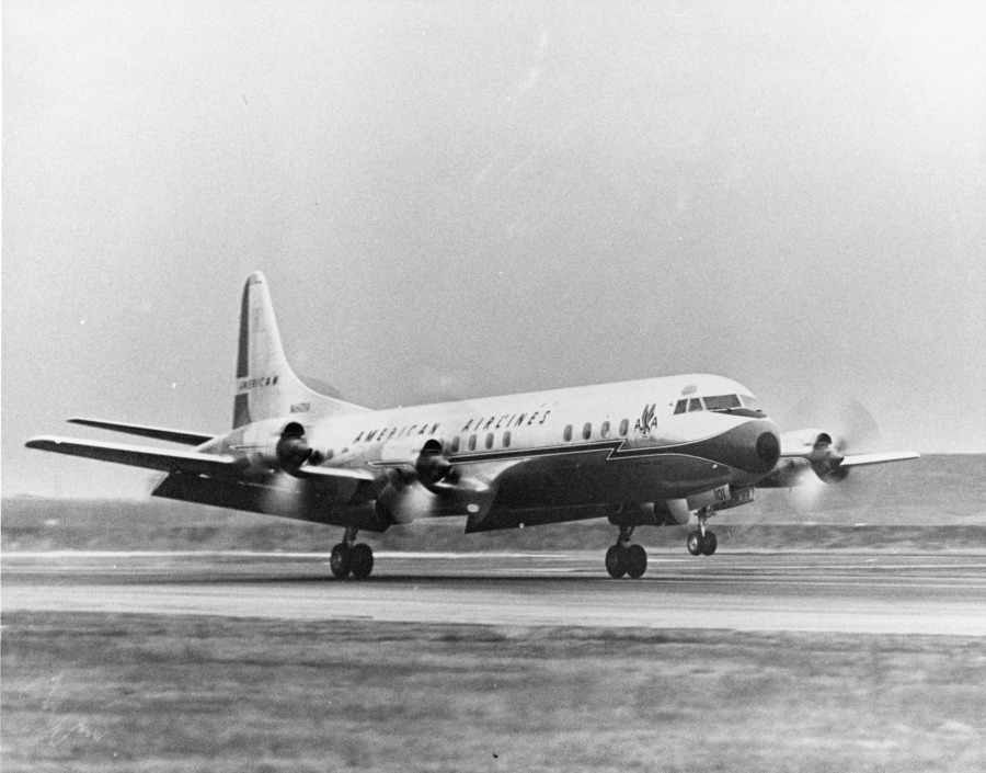 PictionID:54641229 - Catalog:22_000061.tif - Title:Lockheed L-188 Electra N6101A American AL - Filename:22_000061.tif - Image from the Arkansas Aviation Historical Society, which donated a large collection of archival material to the San Diego Air and Space Museum in 2016--Please Tag these images so that the information can be permanently stored with the digital file.---Repository: San Diego Air and Space Museum